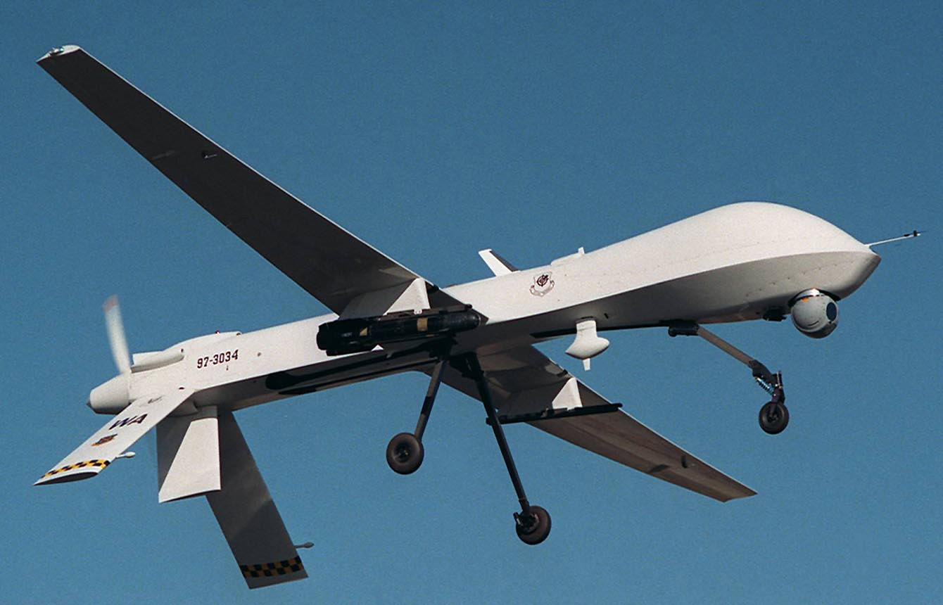 MQ-1 Predator armed with AGM-114 Hellfire missile.